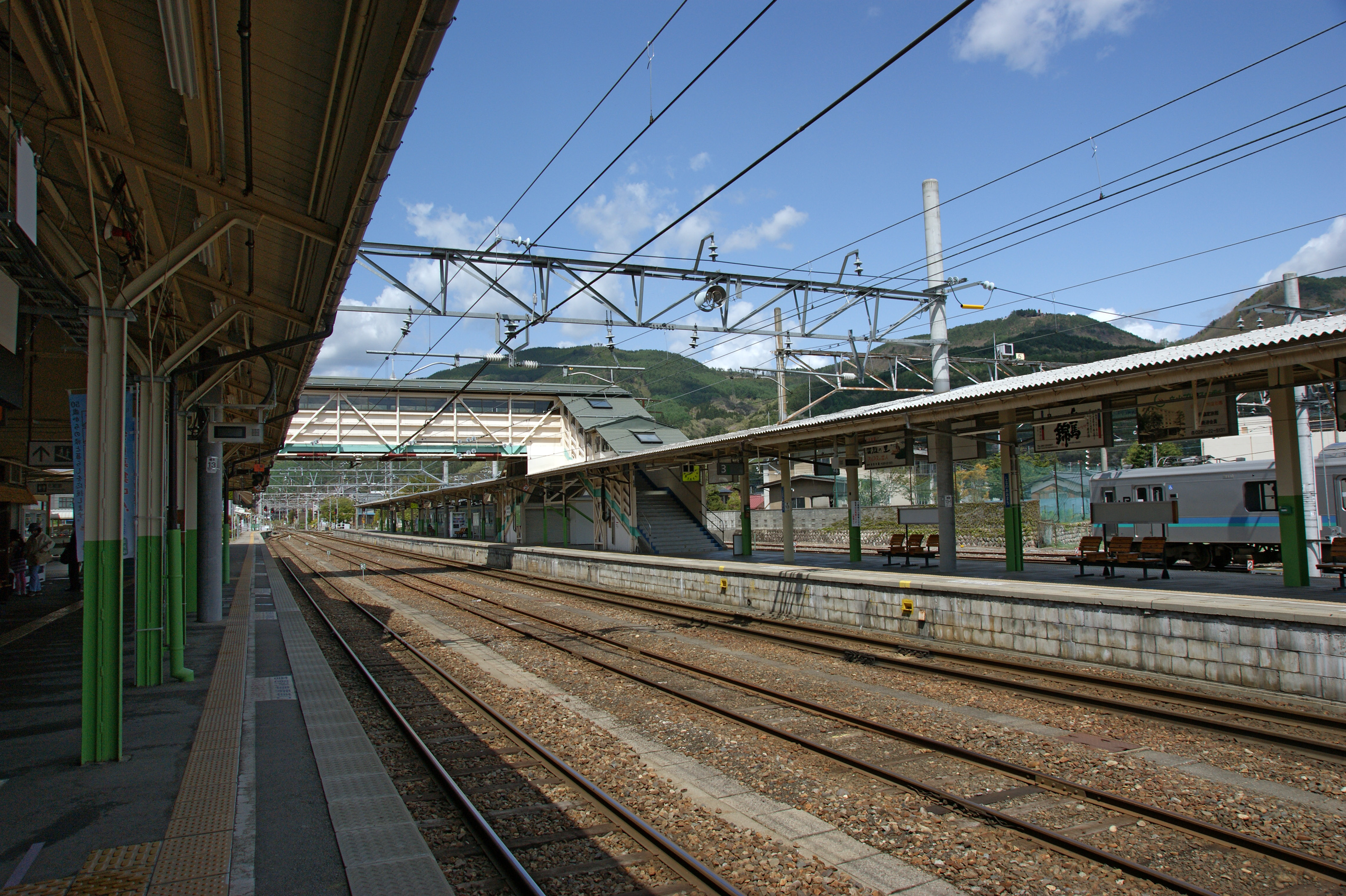 Shinano-Ōmachi Station in Ōmachi, Nagano prefecture, Japan